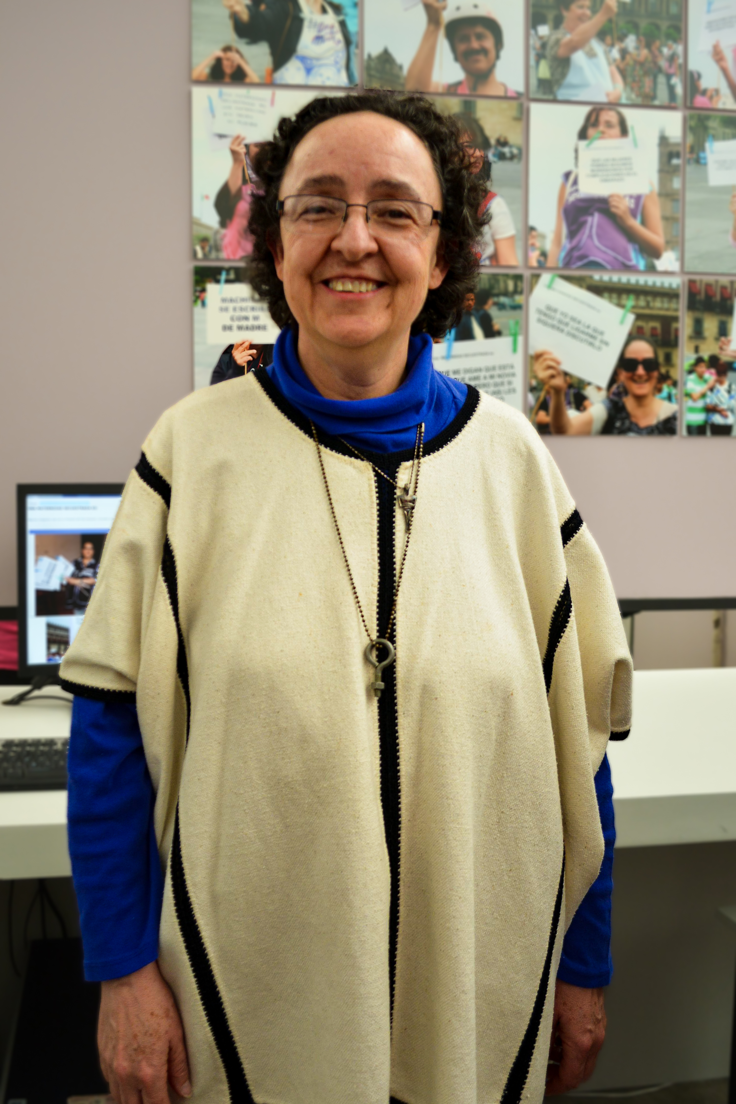 Mexican artist Mónica Mayer at her retrospective exposition "Si tiene dudas… pregunte" at Museo Universitario Arte Contemporáneo.